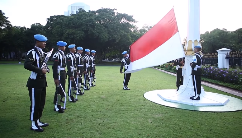 paspampres personnel raising the indonesian flag